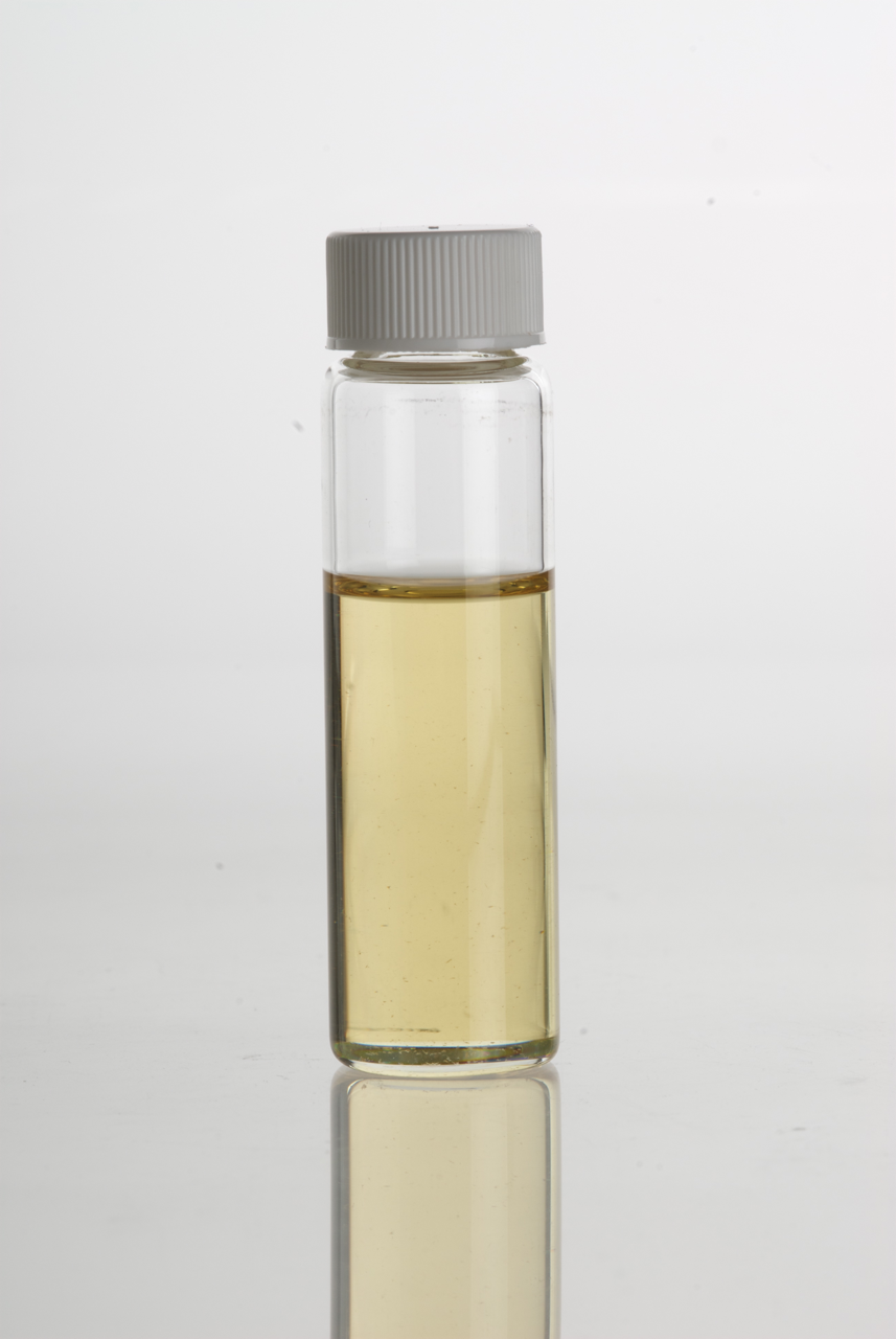 Juniper (Juniperus osteosperma and scopulorum) Essential Oil in clear glass vial